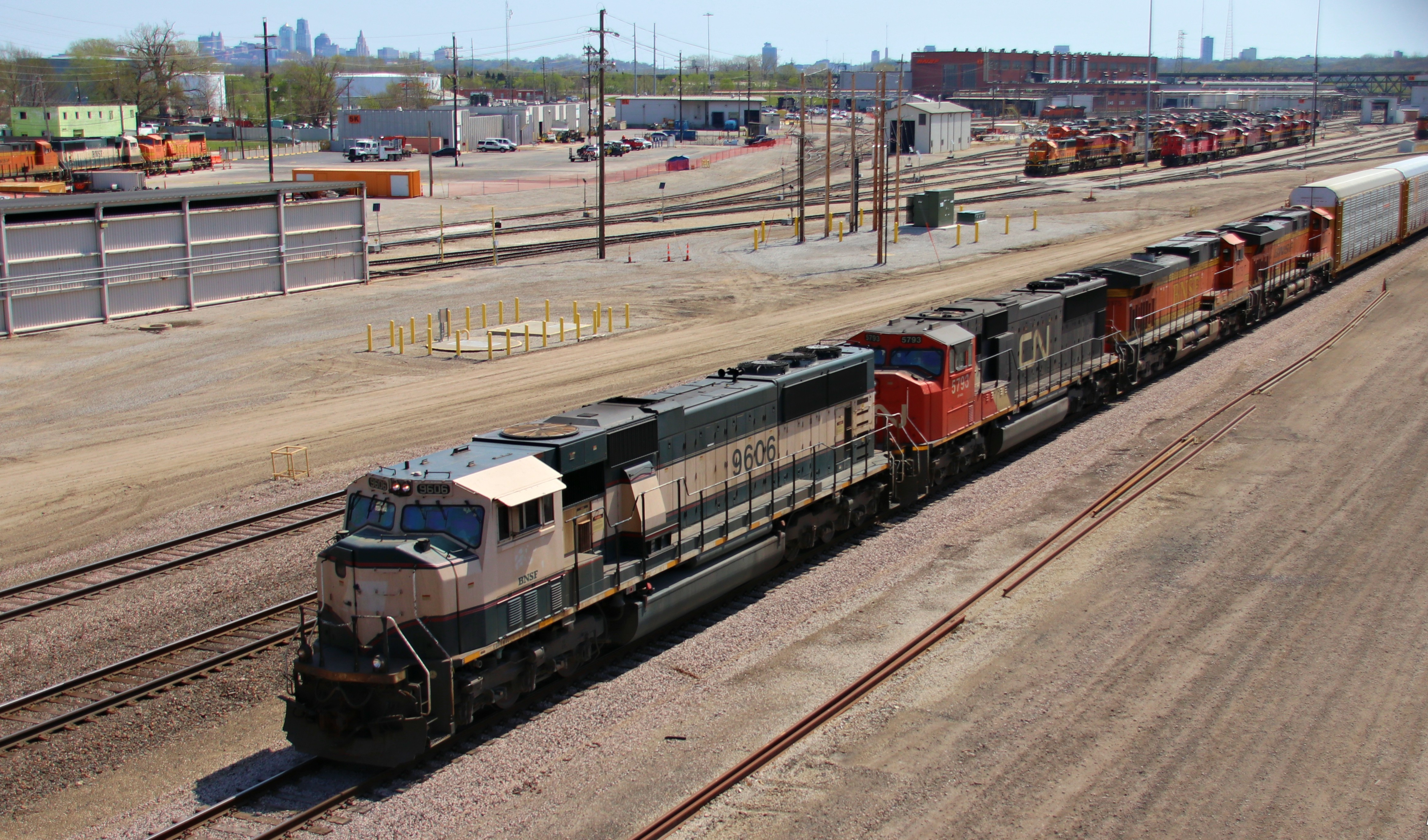 Burlington Northern Santa Fe 9606(SD70MAC), Canadian National 5793 (SD75I), BNSF 4175(C44-9W), 6800(ES44C4) Leads a Westbound Autorack working it's way into the BNSF Argentine Yard here on the east side of the yard seen from the Goddard Viaduct North of Strong Avenue in Kansas City, Kansas. (BNSF Argentine Locomotive Shop is seen in the background) Train: V BLUKCK1 28A